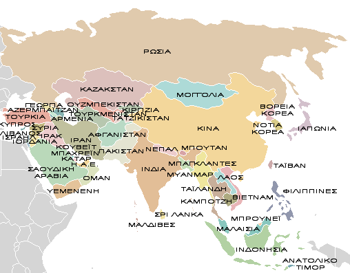 Map of Asia in Greek, based on Image:Asia map pastel plain.png